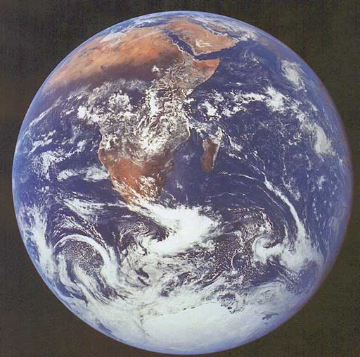 A view of Southern Emisphere taken 21 750 nautical miles (40 281 kilometres) from Earth that shows the coasts of Africa. This image is in the public domain from NASA (#AS17-148-22727). It was taken by US Navy Captain Ronald E. Evans aboard Apollo 17 mission, on 7 December 1972. He used a 70mm Hasselblad camera. See also NASA's page on this photo, including confirmation that it is not protected by copyright. NASA notes: "View of the Earth as seen by the Apollo 17 crew traveling toward the Moon. This translunar coast photograph extends from the Mediterranean Sea area to the Antarctica South polar ice cap. This is the first time the Apollo trajectory made it possible to photograph the South polar ice cap. Note the heavy cloud cover in the Southern Hemisphere. Almost the entire coastline of Africa is clearly visible. The Arabian Peninsula can be seen at the Northeastern edge of Africa. The large island off the coast of Africa is the Malagasy Republic. The Asian mainland is on the horizon toward the Northeast."